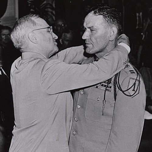 CAPT Bobbie E. Brown receiving MoH